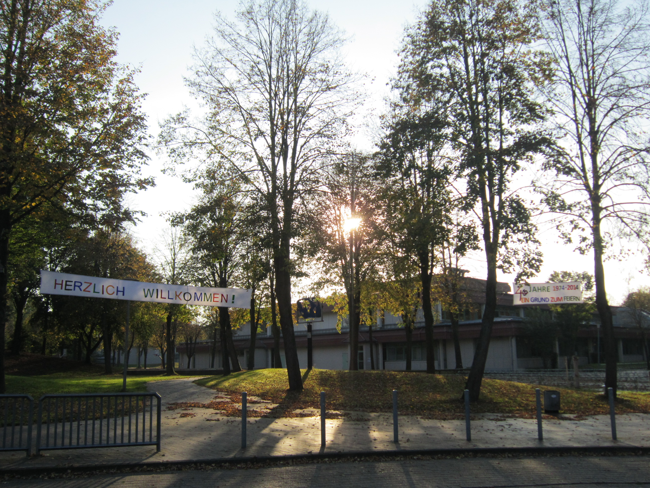 Secundary school in Essen (Oldenburg)